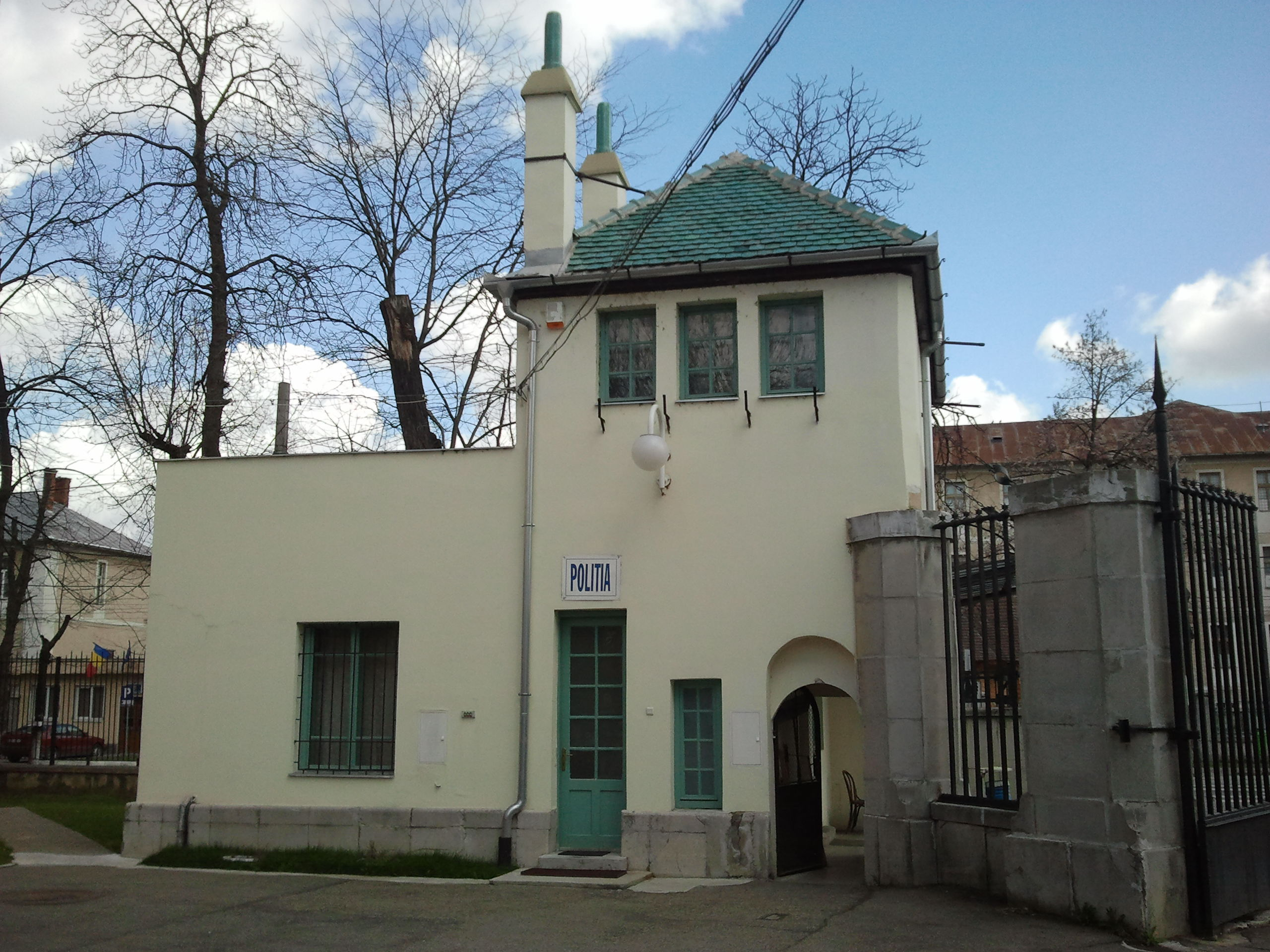 University of Oradea - Buliding G